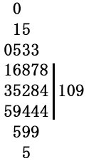 Galley division method using printers system (no crossouts or erasures) shown at finish.